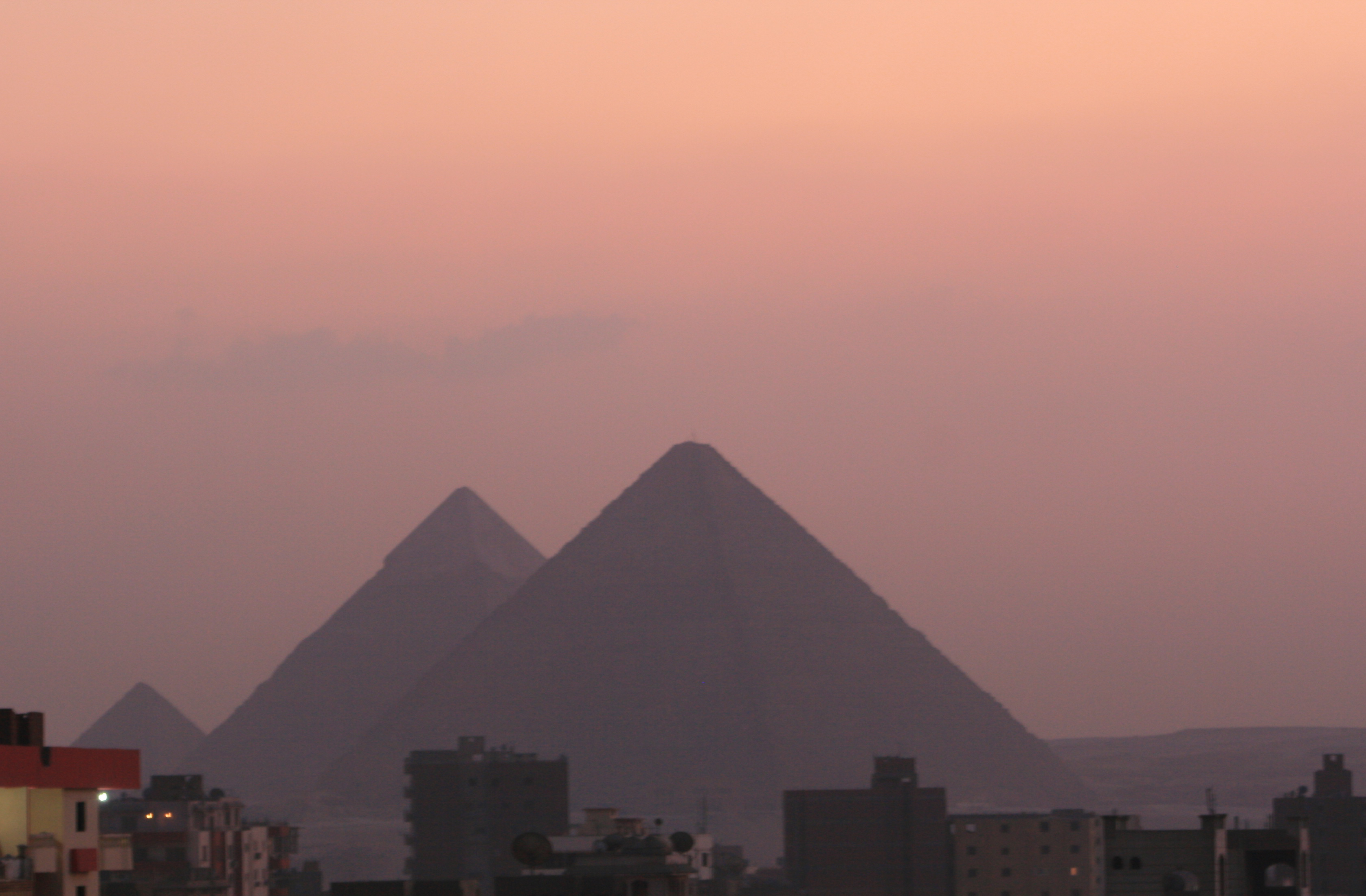 Giza pyramid complex, Giza, Egypt